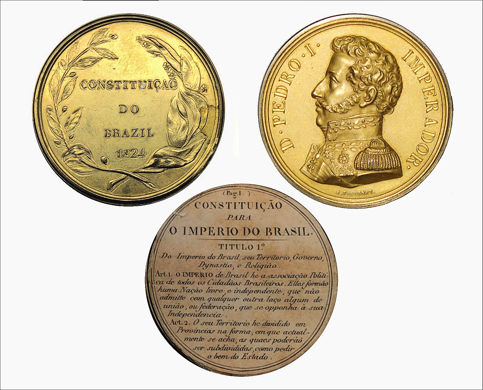 Pedro I of Brazil im medal, 1824.